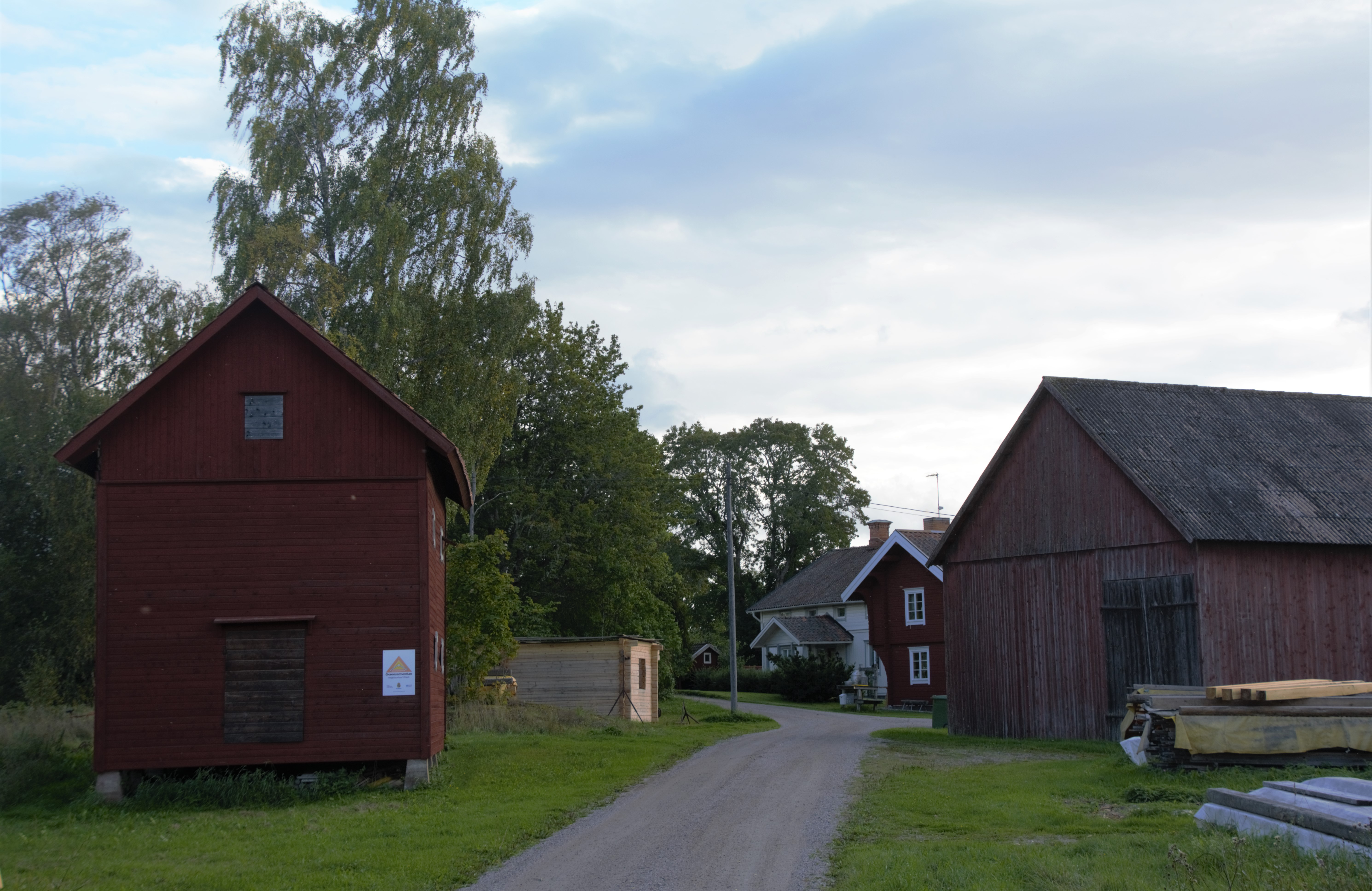 Karbenning by, Norberg Municipality, entrance from north